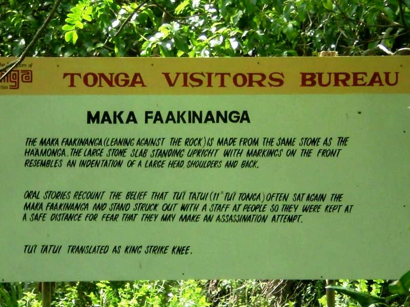 Ha'amonga 'a Maui